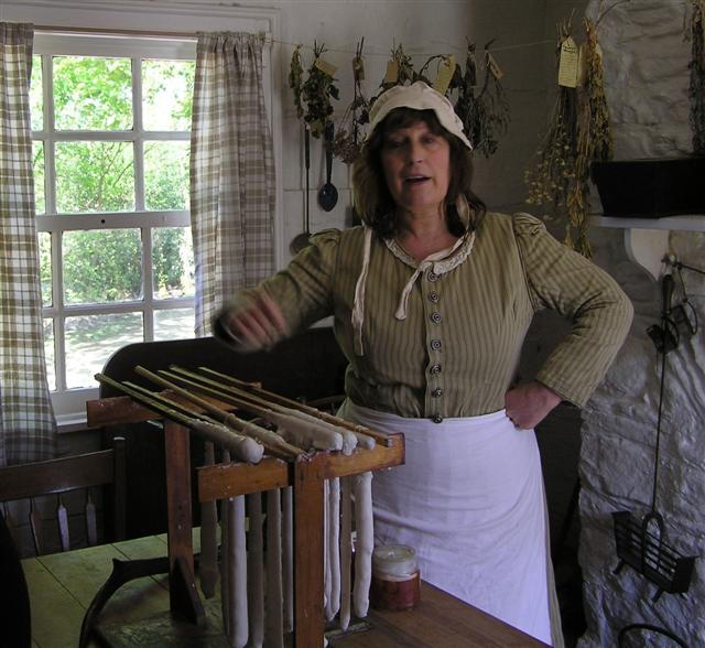 The lady of the house, Ulster American Folk Park Amongst other things she is demonstrating how wax candles are home-made